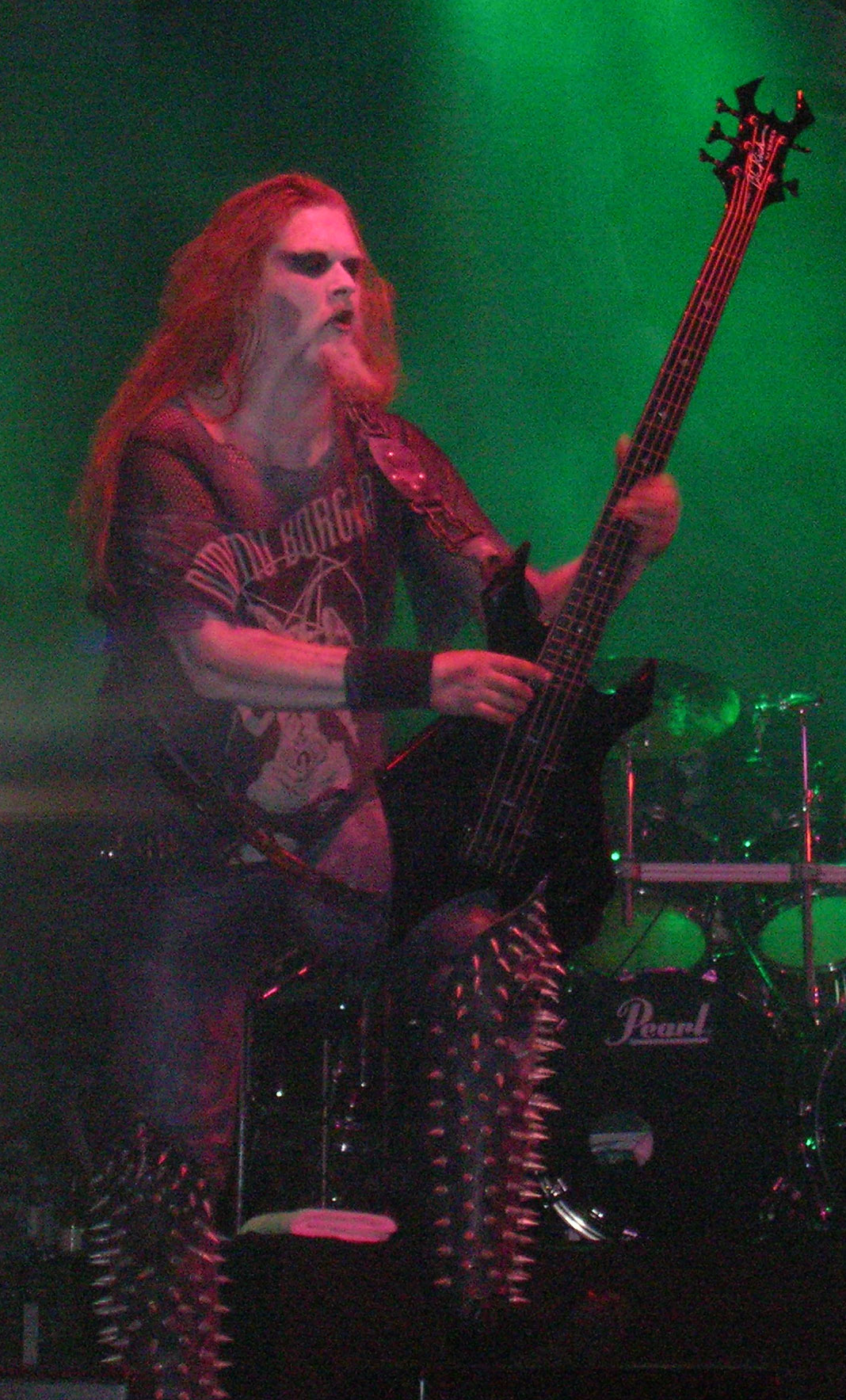 ICS Vortex (Simen Hestnæs) Bass player of Dimmu Borgir, at gates of metal, Sweden, 2005.